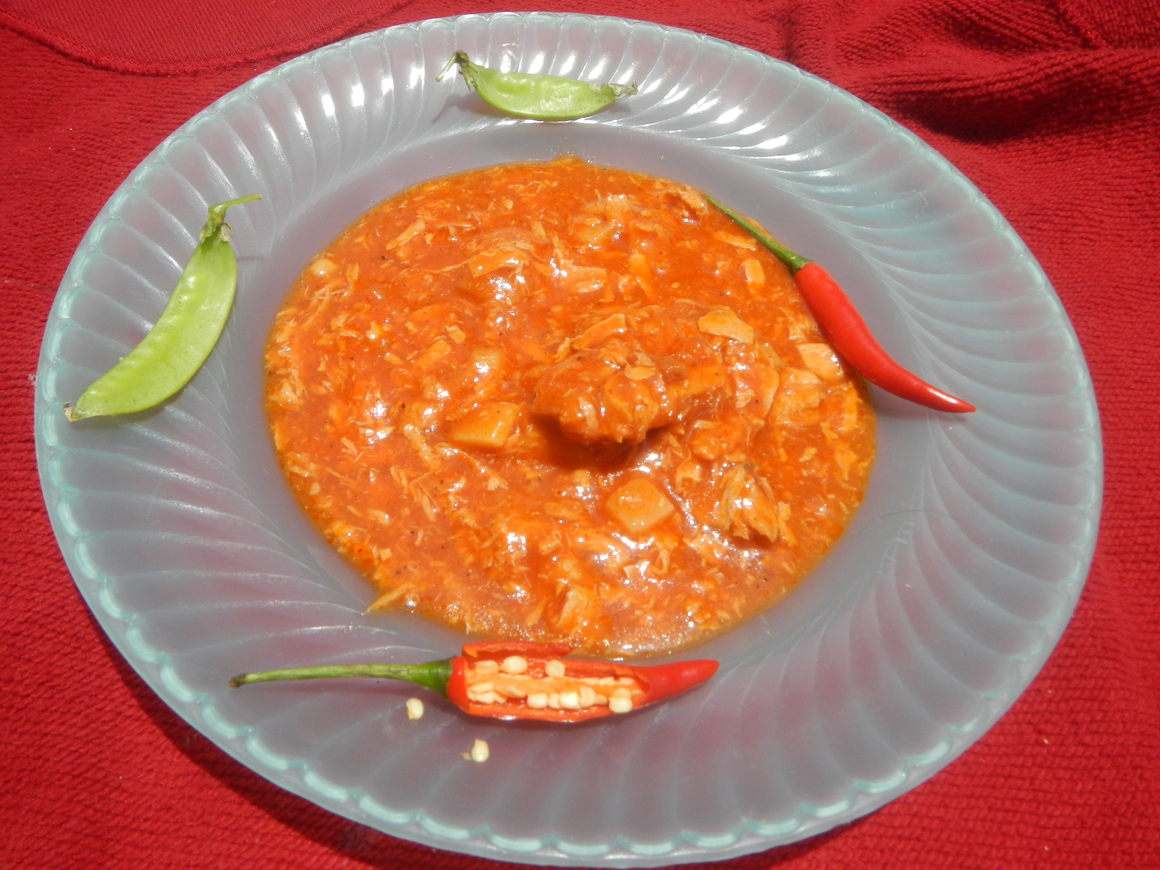 Eggplants in the Philippines Afritada Purefoods Chicken Afritada Shredded chicken breast Bagoong Adobo Adobong laman loob Afritadang talong photos taken in Barangay Poblacion 14°57'17"N 120°54'2"E Baliuag, Bulacan, Bulacan province (Note: Judge Florentino Floro, the owner, to repeat, Donor Florentino Floro of all these photos hereby donate gratuitously, freely and unconditionally all these photos to and for Wikimedia Commons, exclusively, for public use of the public domain, and again without any condition whatsoever).